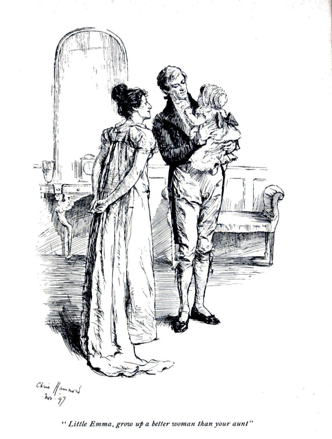 Emma (Jane Austen Novel) ch 12 : Mr Knightley has taken the little girl out of Emma's arms, and Emma felt they were friends again.